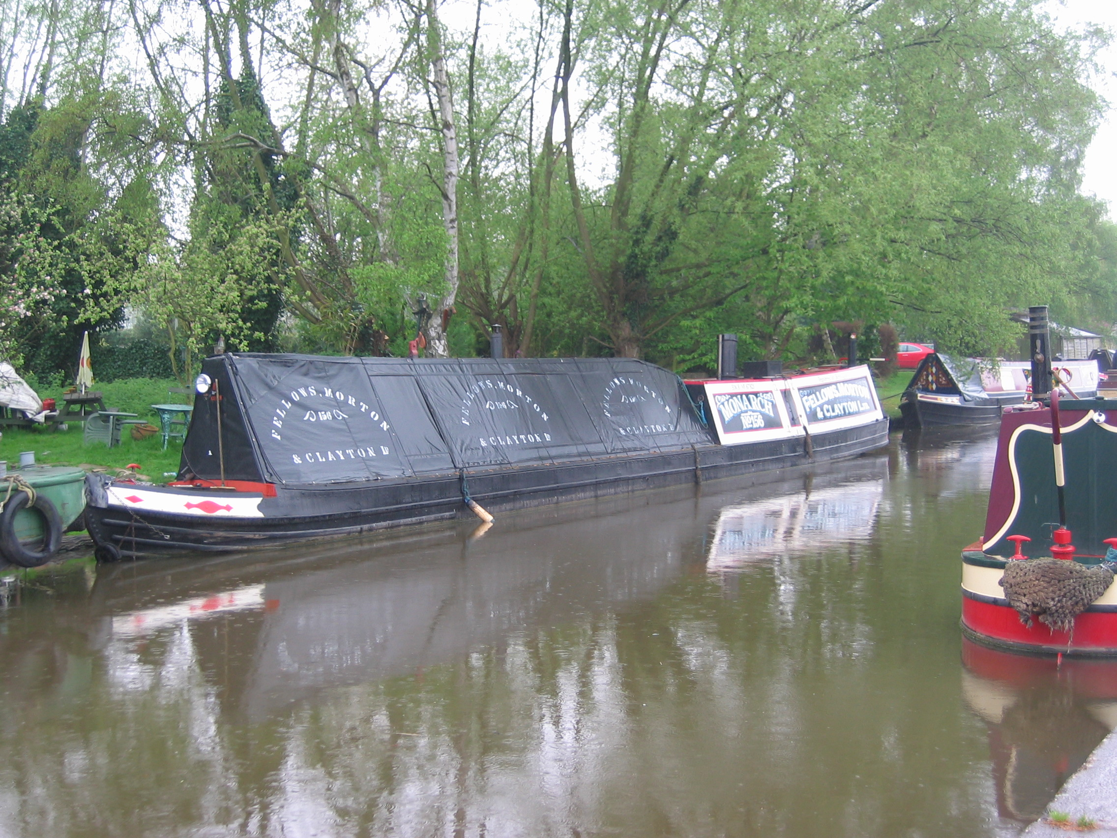 Fradley Canal Junction, near Lichfield, England